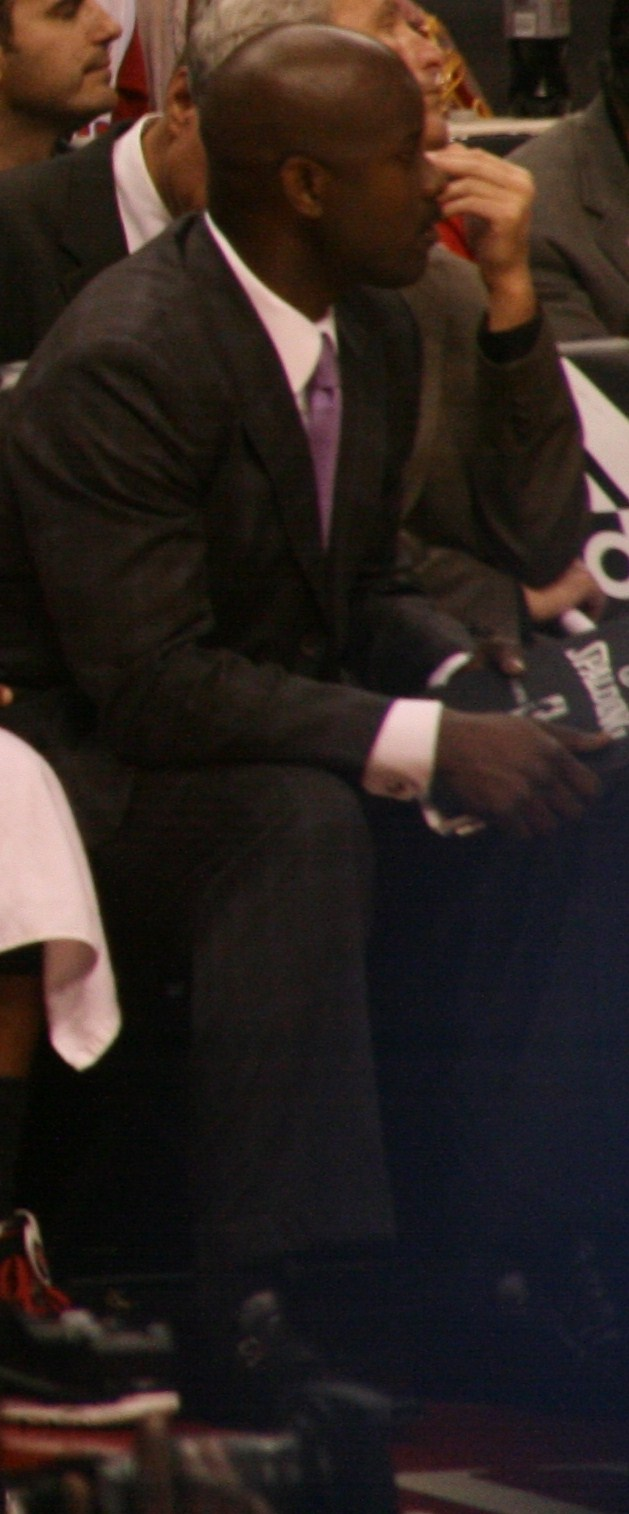 Los Angeles Clippers assistant coach Robert Pack on the bench in 2011